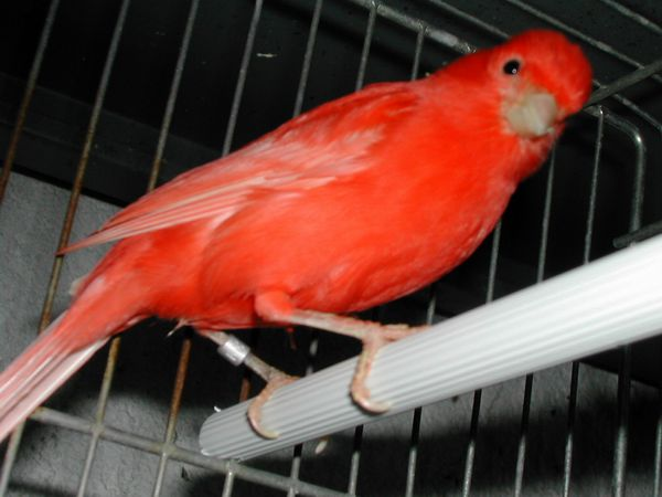 Serinus hybrid Rosso Intenso femmina